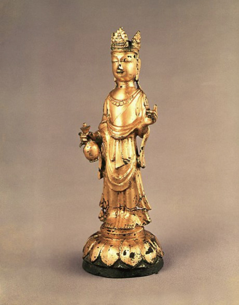 Gwanseeum-bosal statue, Silla, N.127, National Museum of Korea